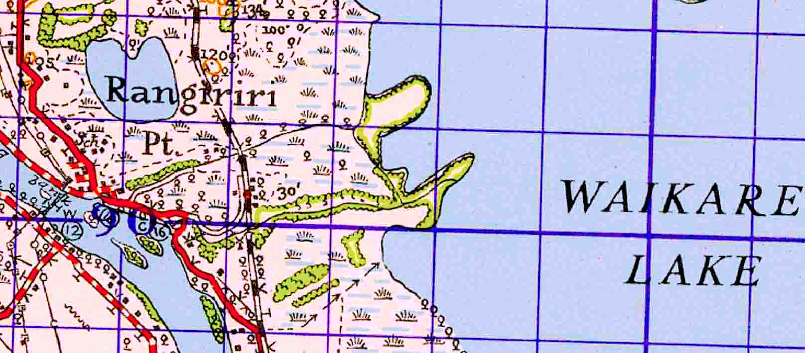 Rangiriri railway station on one inch map